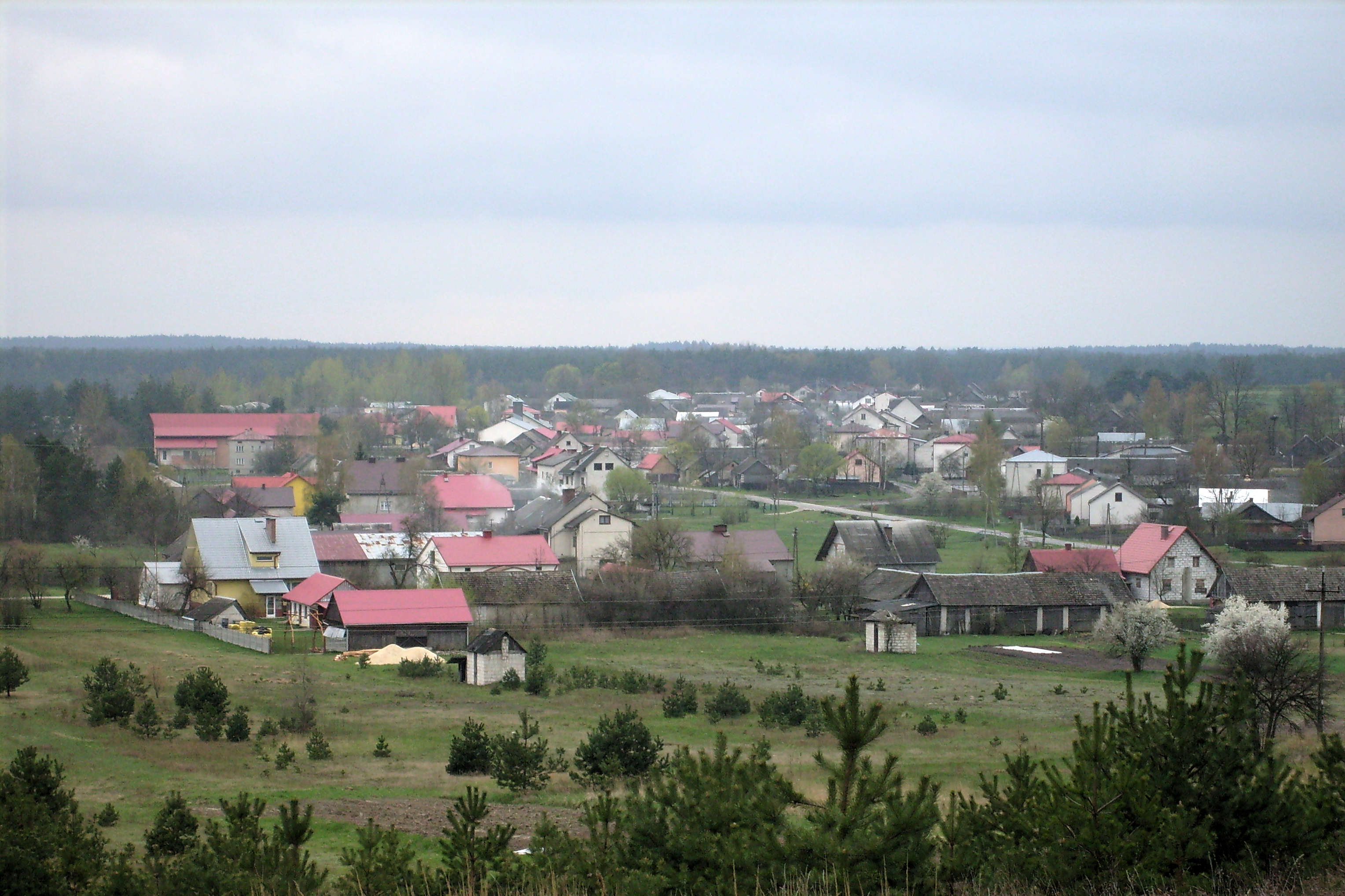 Willage Dlugi Kat